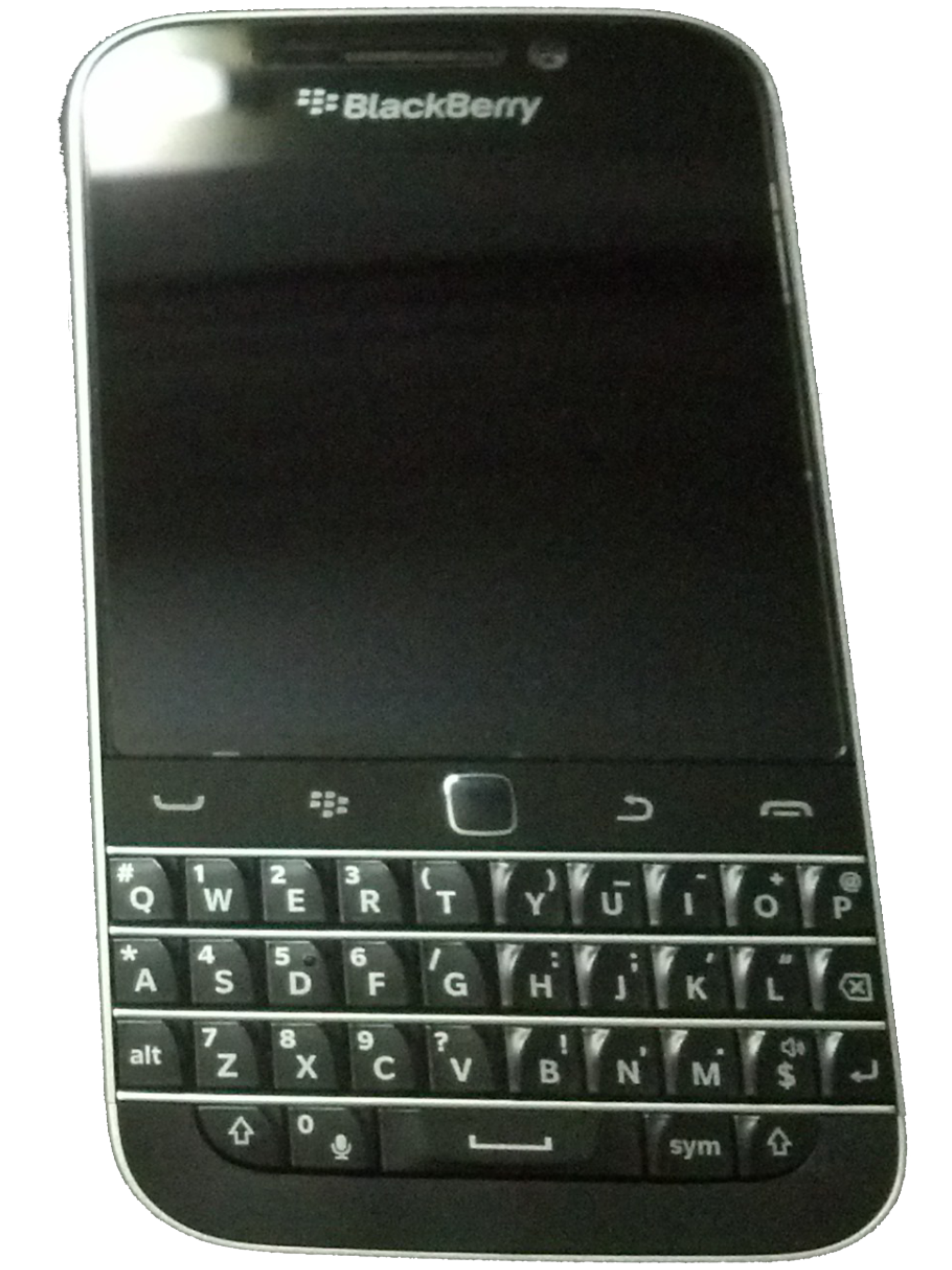 BlackBerry Classic (BlackBerry Q20)